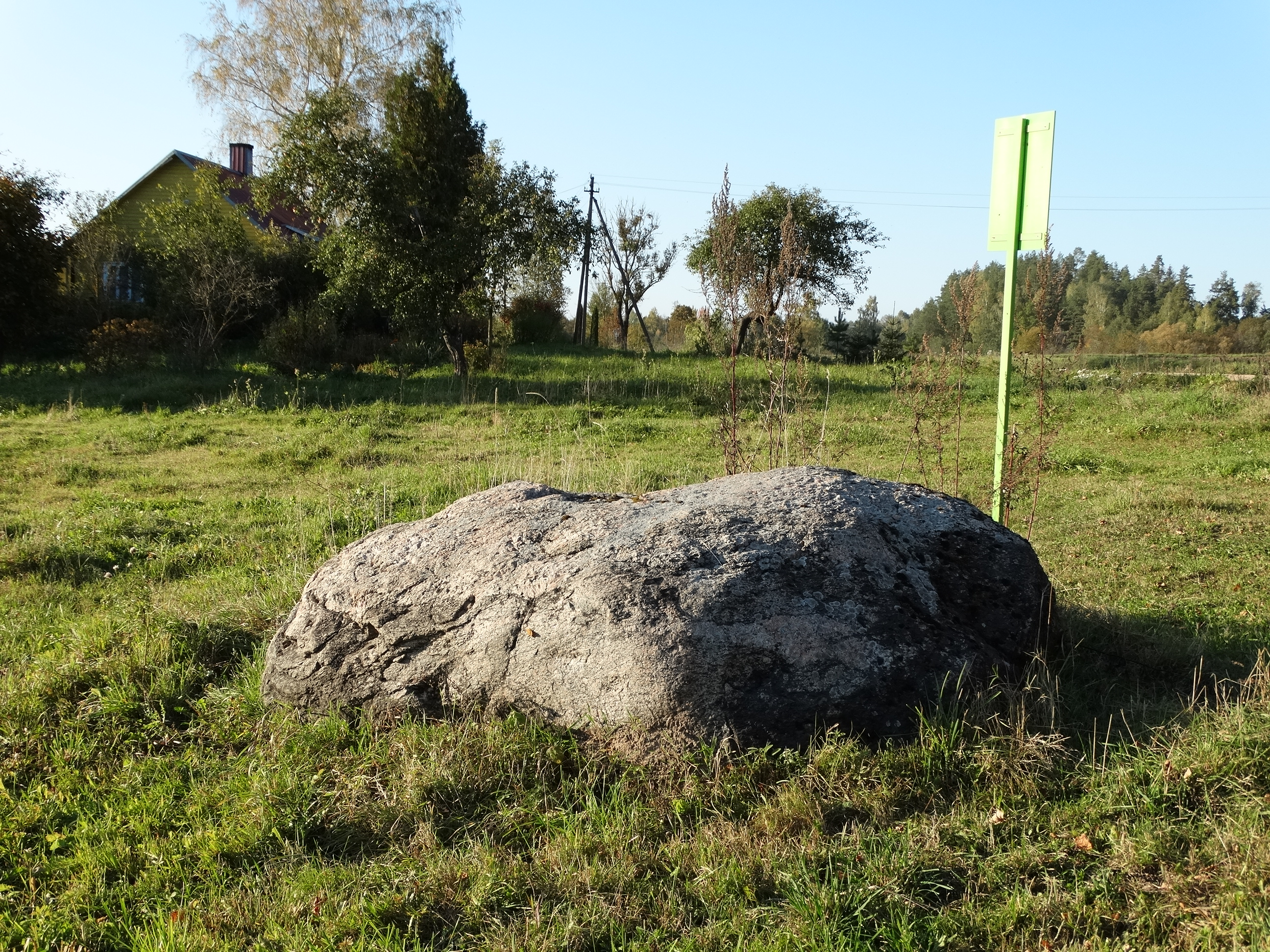 Stones in Karveliškės, Kaišiadorys District, Lithuania